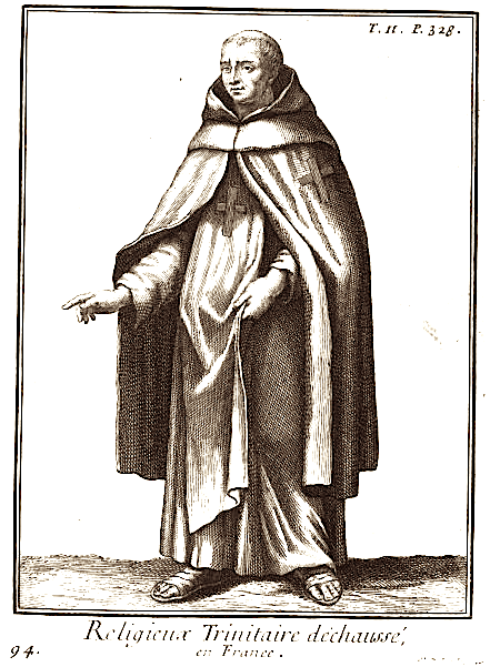 Trinitarian brother